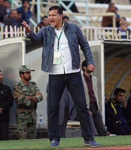 Ali Daei